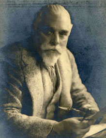 Alfred E Goodey was a benefactor of paintings to Derby Museum in England. This picture was taken by the company WWWinter (WWWinter had died in 1924)